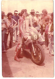 Venezuelan champion of bike racing Aldo Nannini